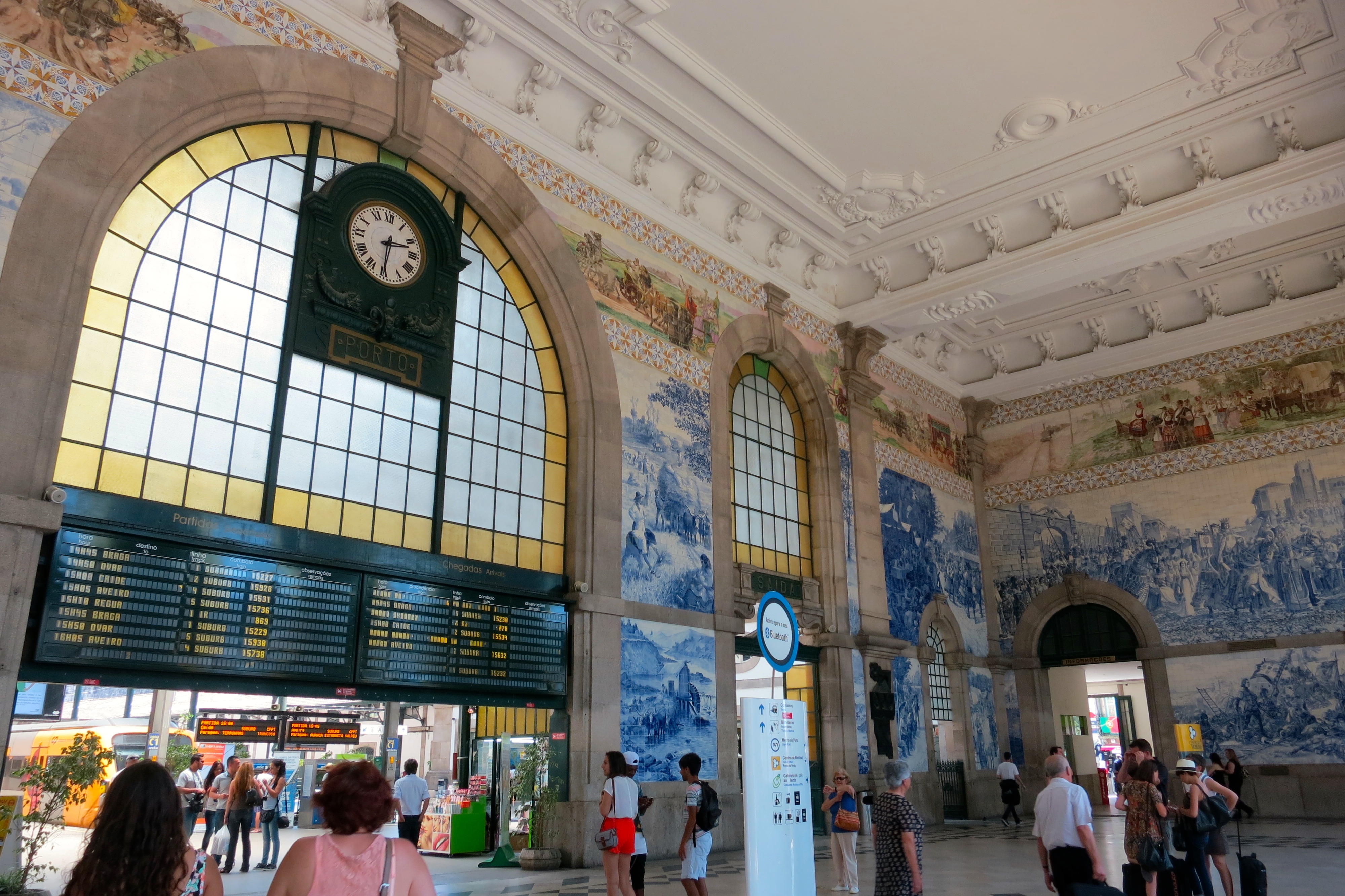 Great hall of Porto São Bento train station, Porto, Portugal